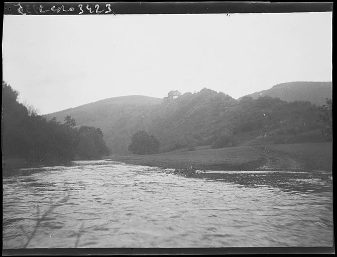 Castle of Schuttbourg, Luxembourg. Vue from the valley of the Clerve. Photo.